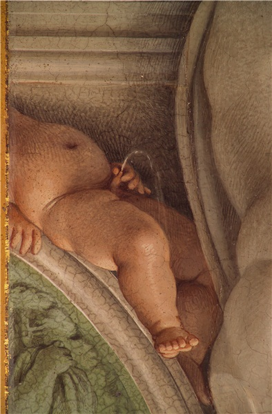 Annibale Carracci, Putto mingens, Farnese Ceiling detail